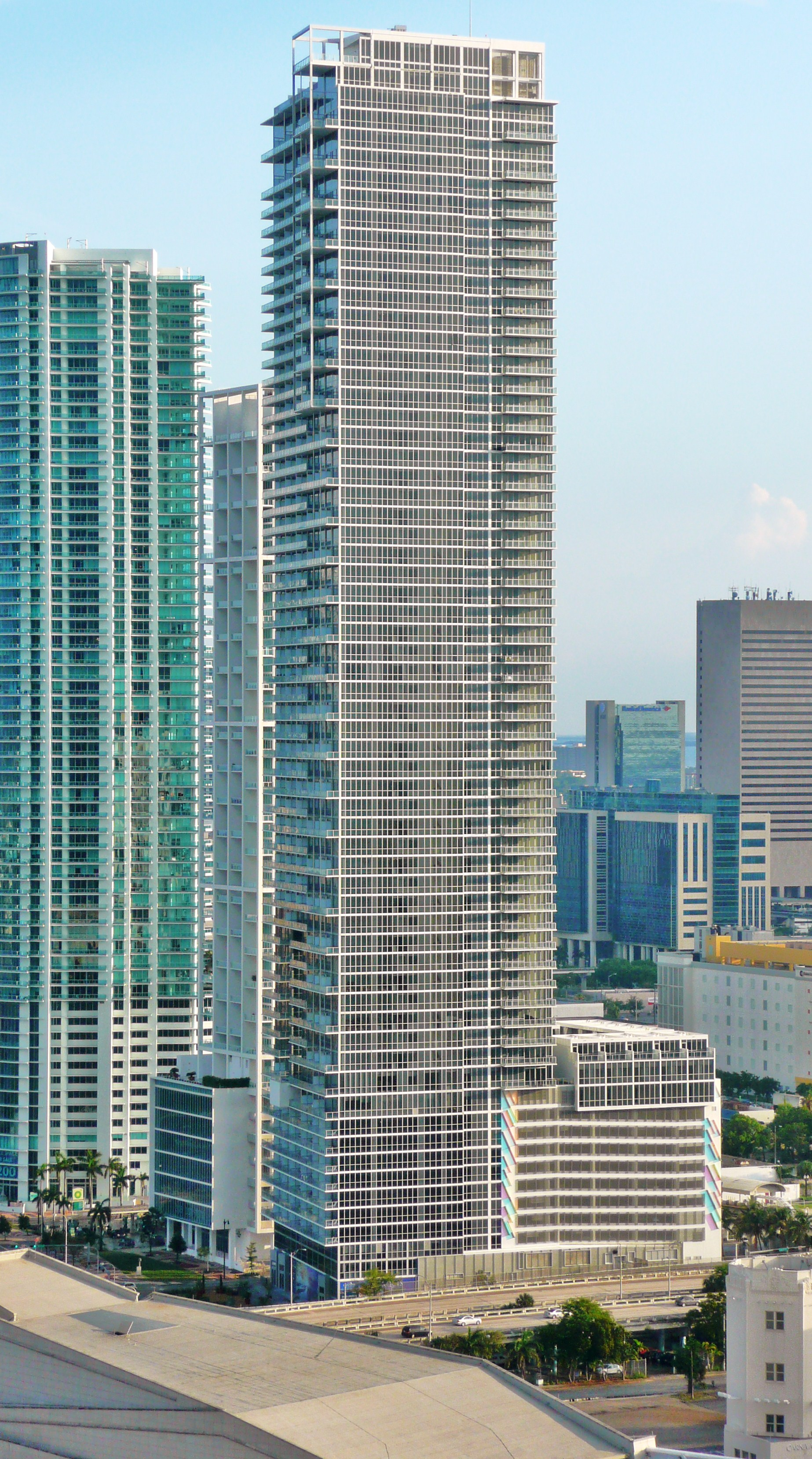 Digital photo taken by Marc Averette. Marquis Miami in Downtown Miami, Florida, United States.